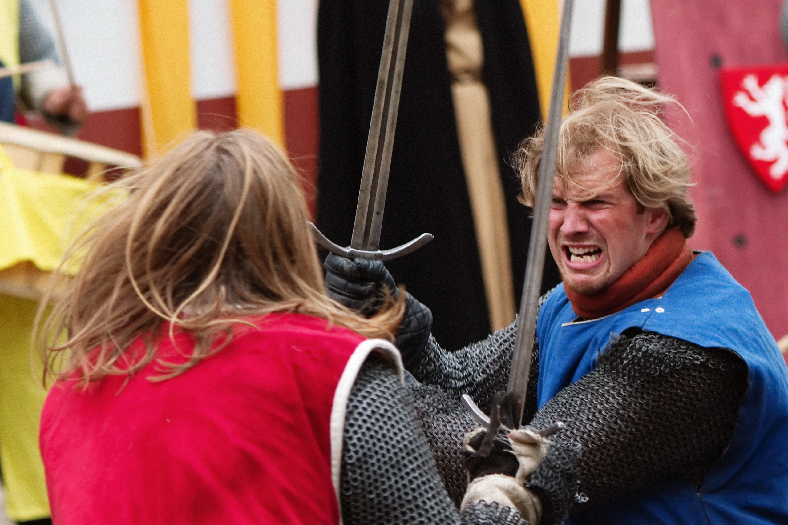 Fight!!